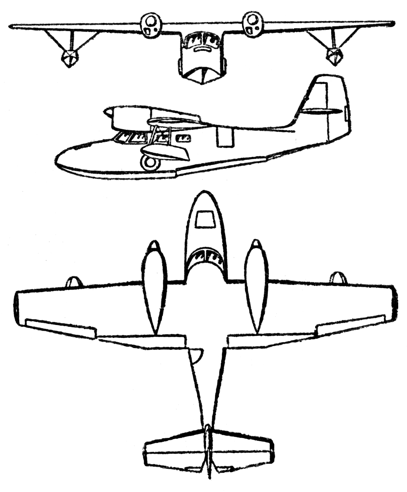 Grumman Widgeon 3-view drawing from Les Ailes February 1, 1947